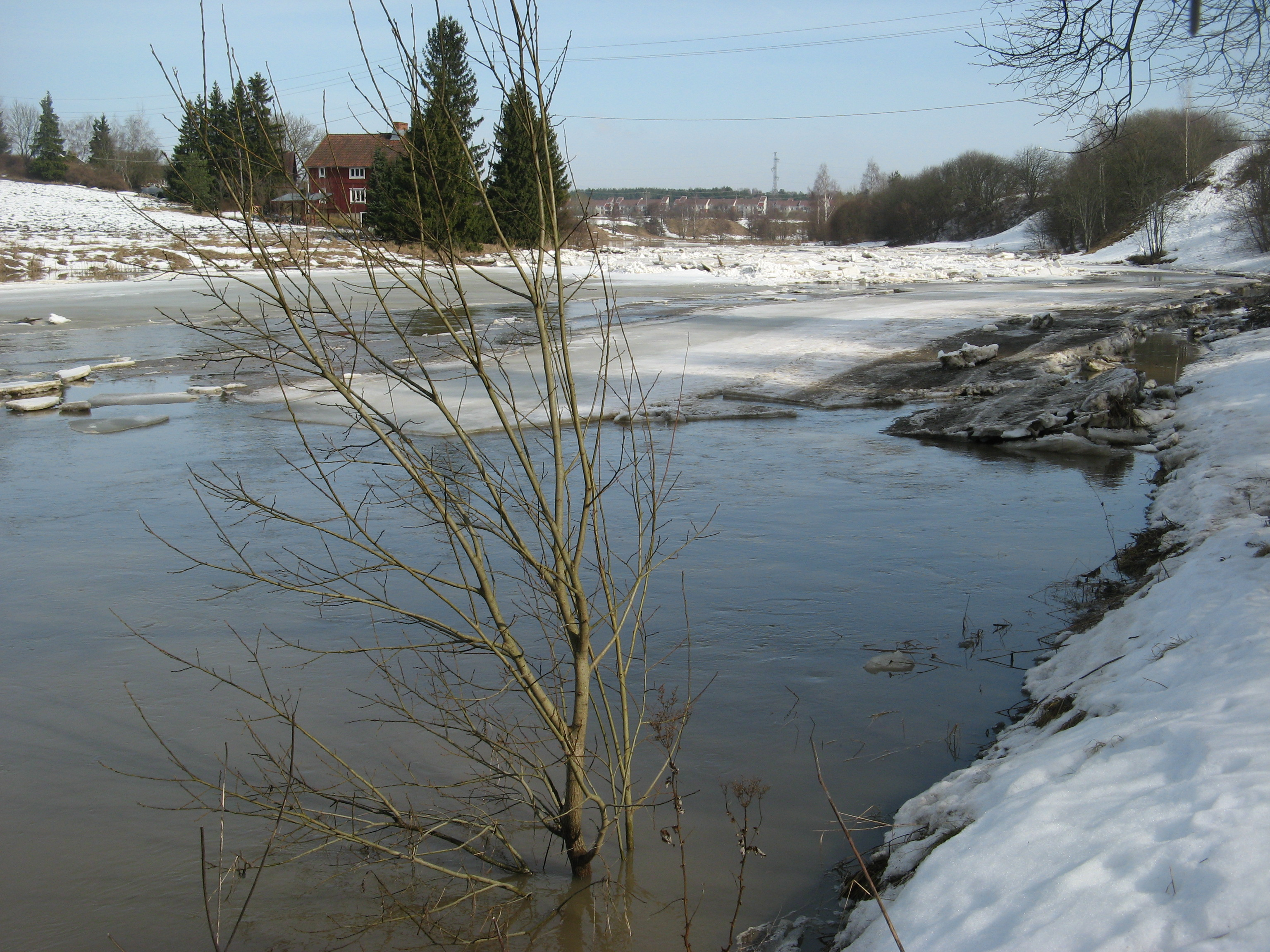 The ice is breaking in Aura River. View upstream; Koroinen on the left in the picture, student housing in Halinen further away.